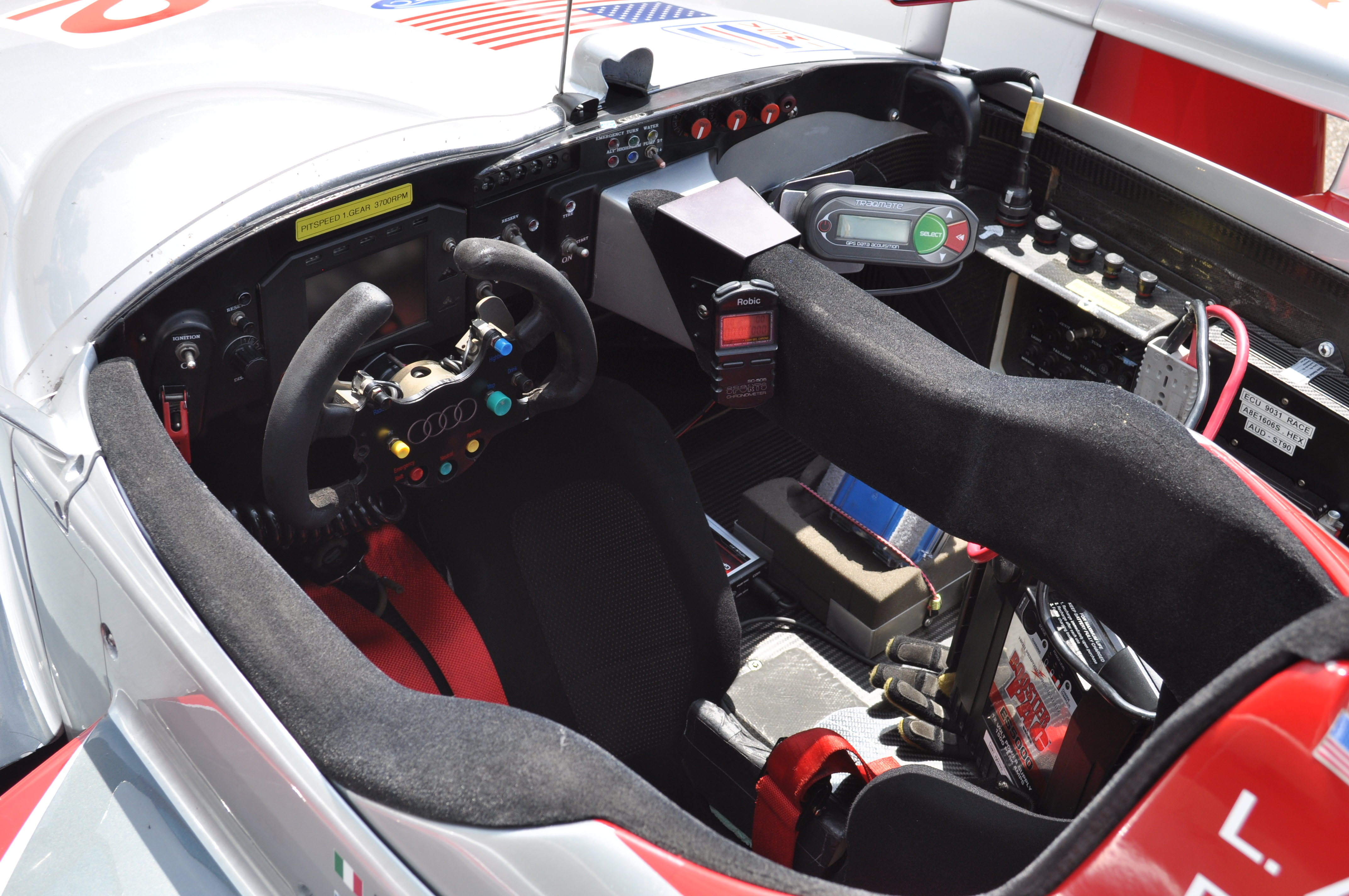 The cockpit of an Audi R8 racing car, in the paddock at Circuit Mont-Tremblant during the 2010 Legends of Motorsport meeting.